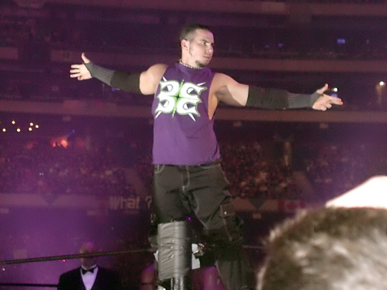 Matt Hardy at WrestleMania X8. SkyDome, Toronto, ON, March 17 2002. Taken by me.